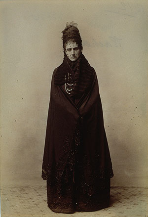 Virginia Oldoini, Countess di Castiglione (1837−1899)